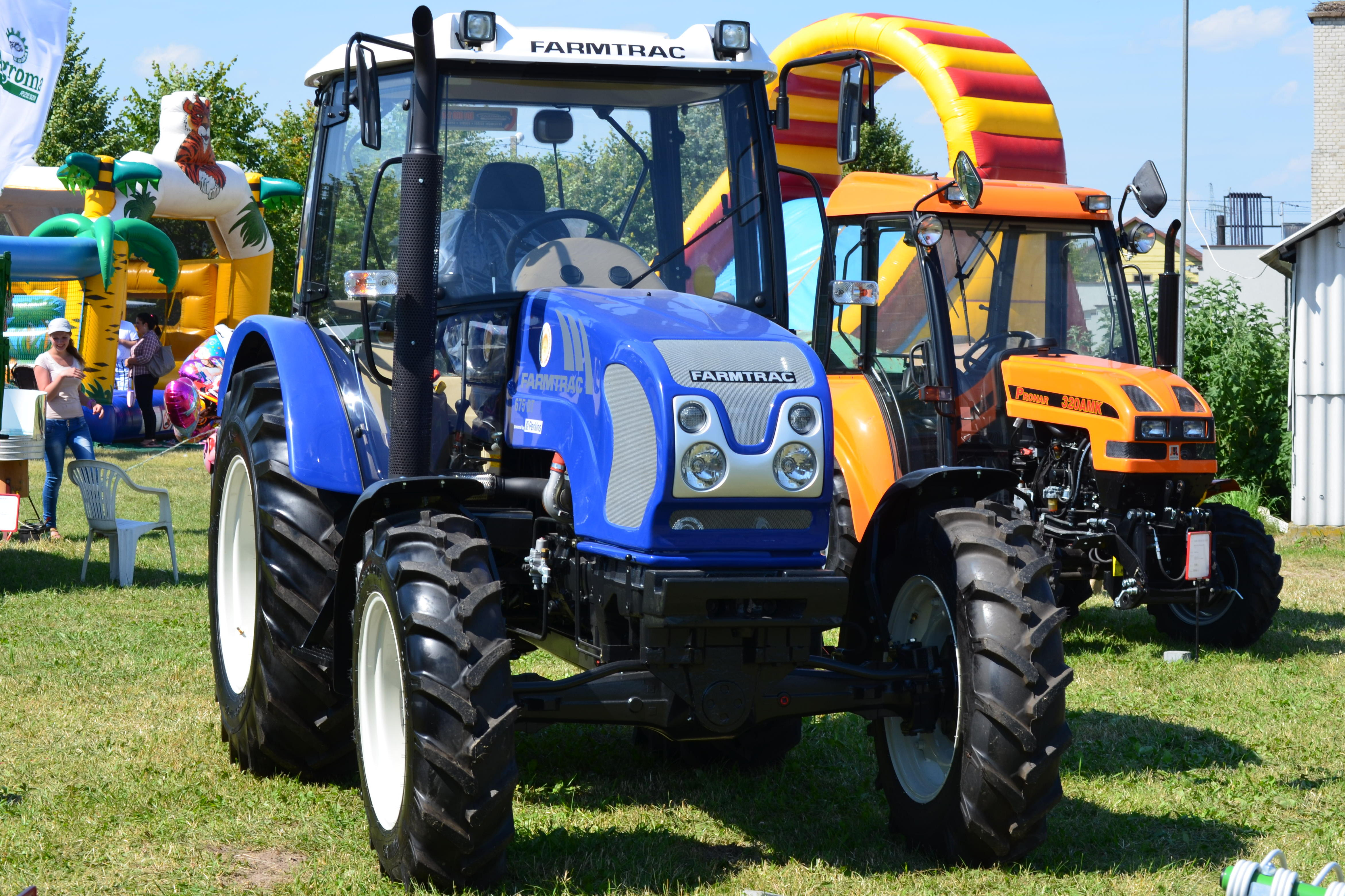 Farmtrac tractors